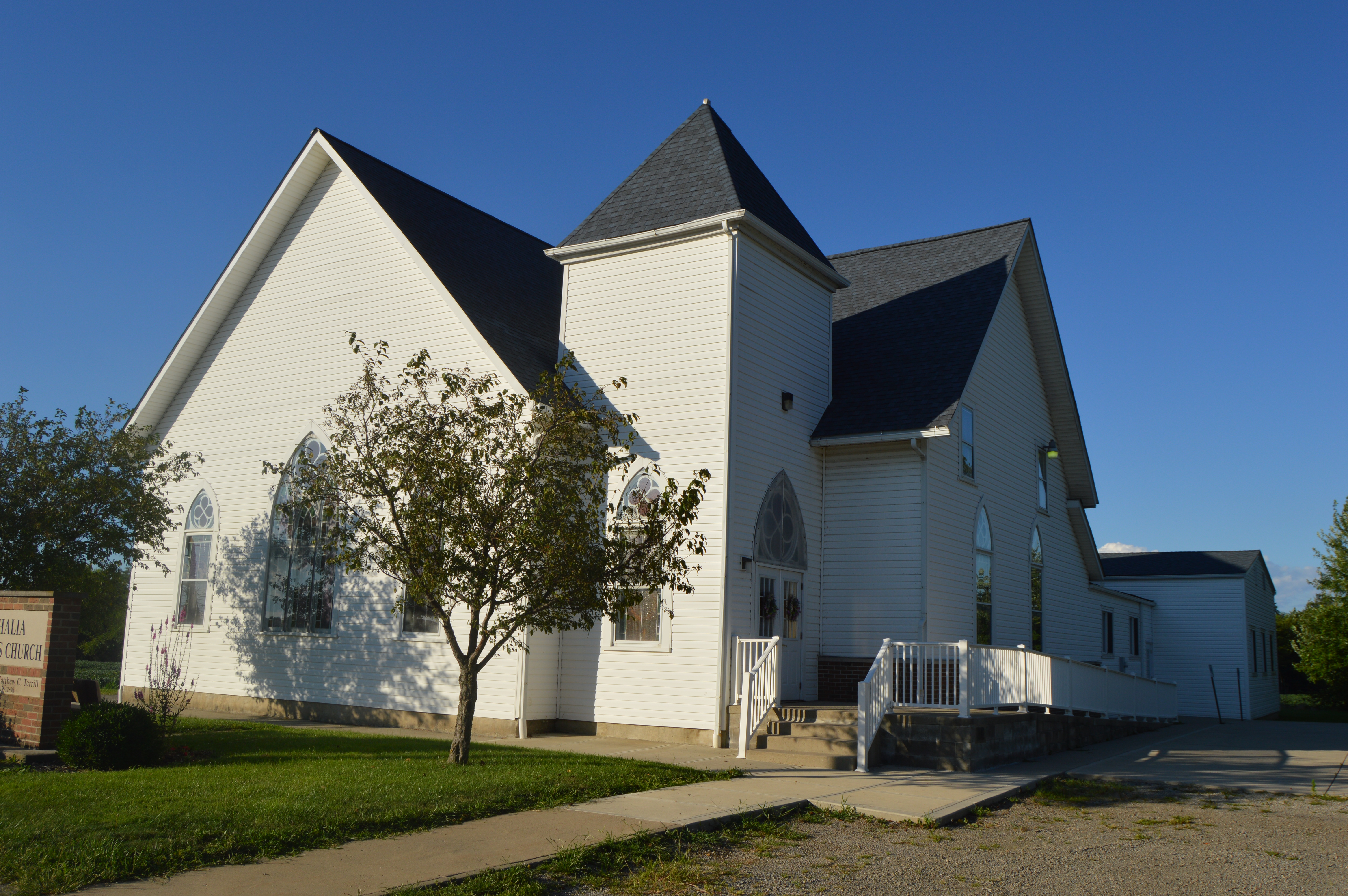 Front and southern side of the Byhalia Friends Church, located at Byhalia in Washington Township, Union County, Ohio, United States.